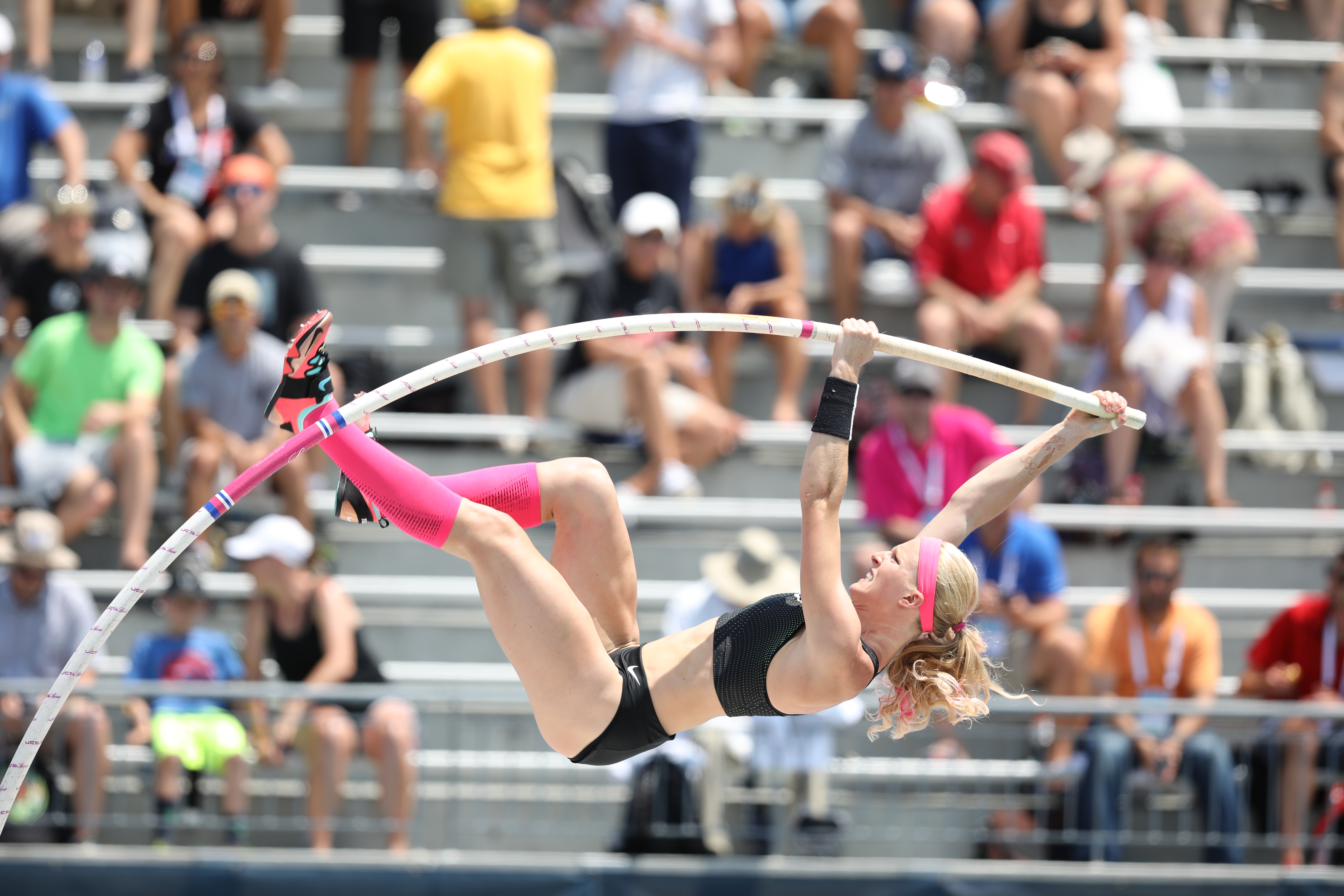 2018 USA Outdoor Track and Field Championships